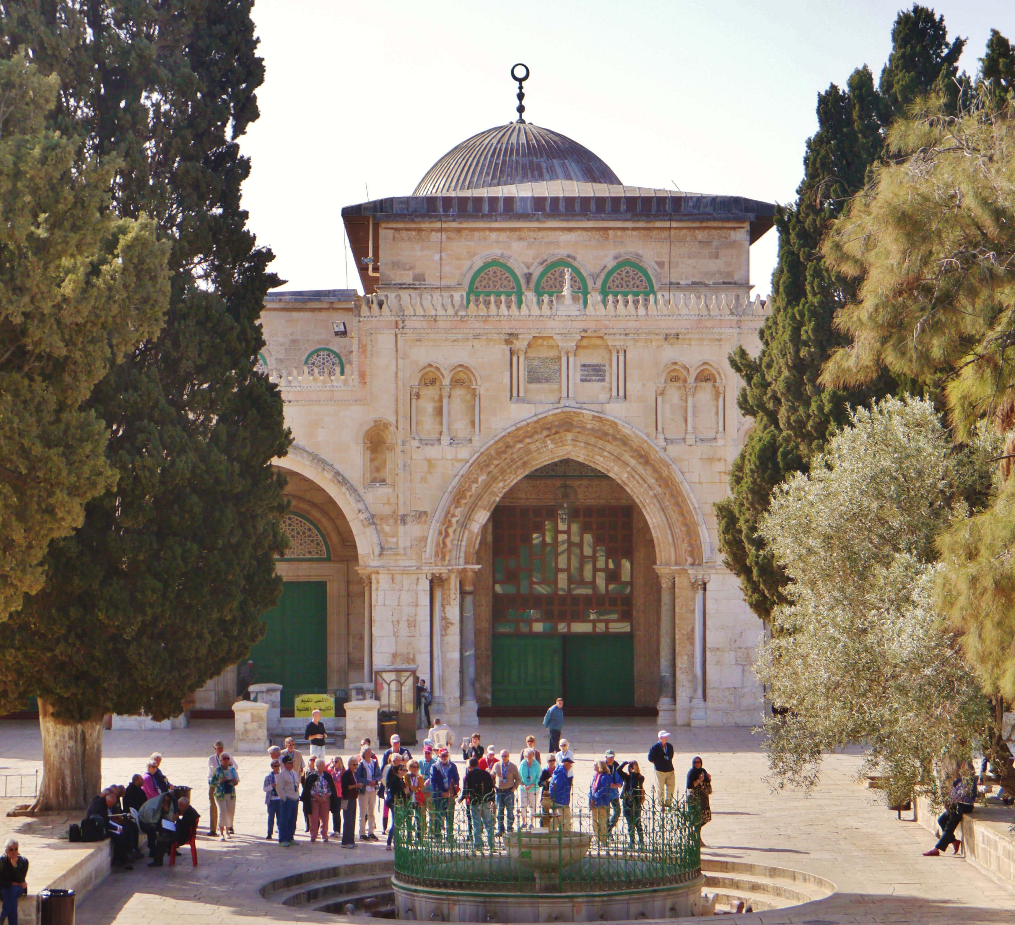 Facade of Al-Aqsa Mosque, Jerusalem, Israel